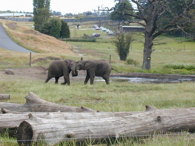 Elephants at the West Midland Safari Park near Bewdley, Worcestershire, England.